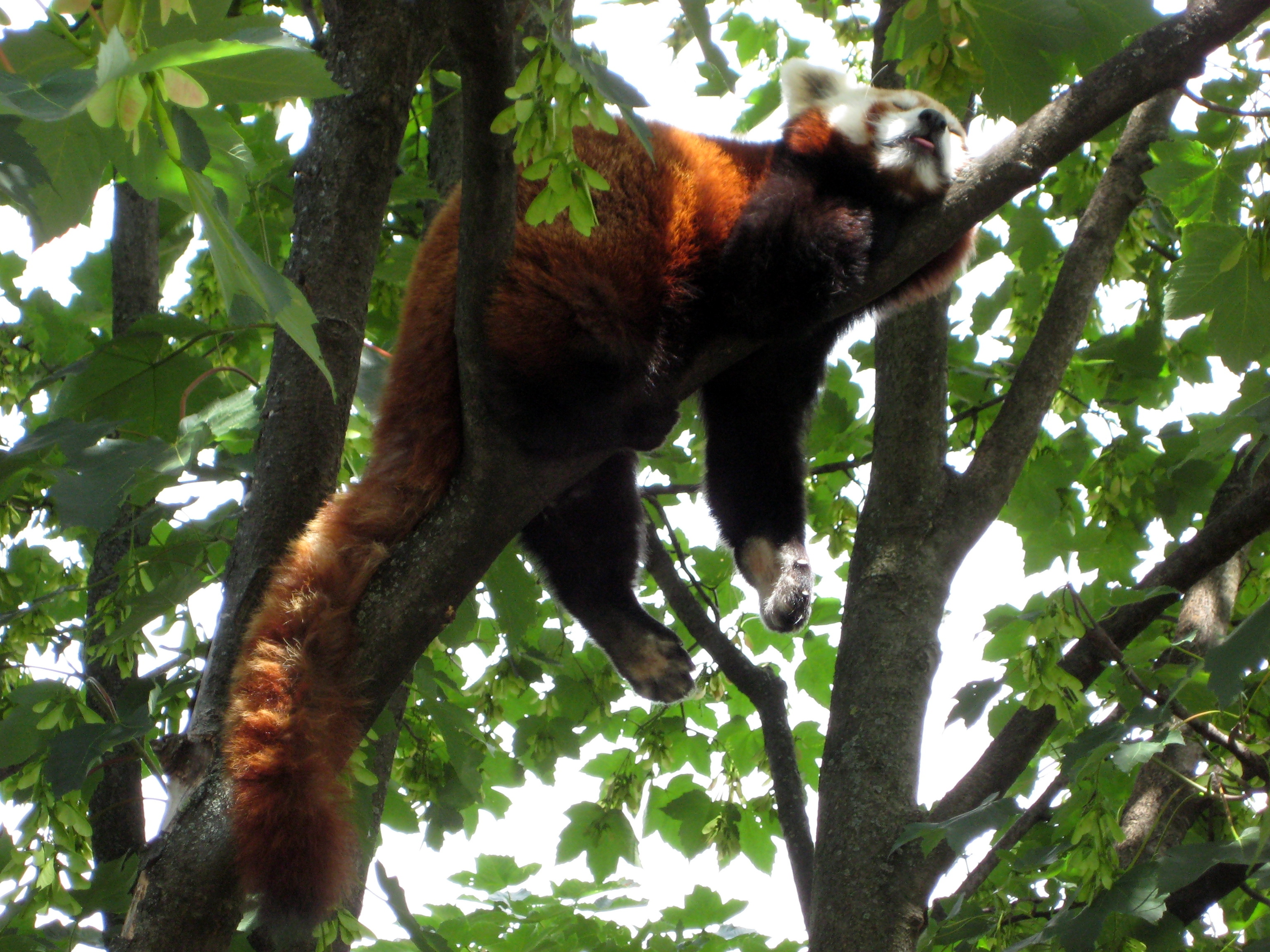 Tiergarten Schönbrunn, Red Panda